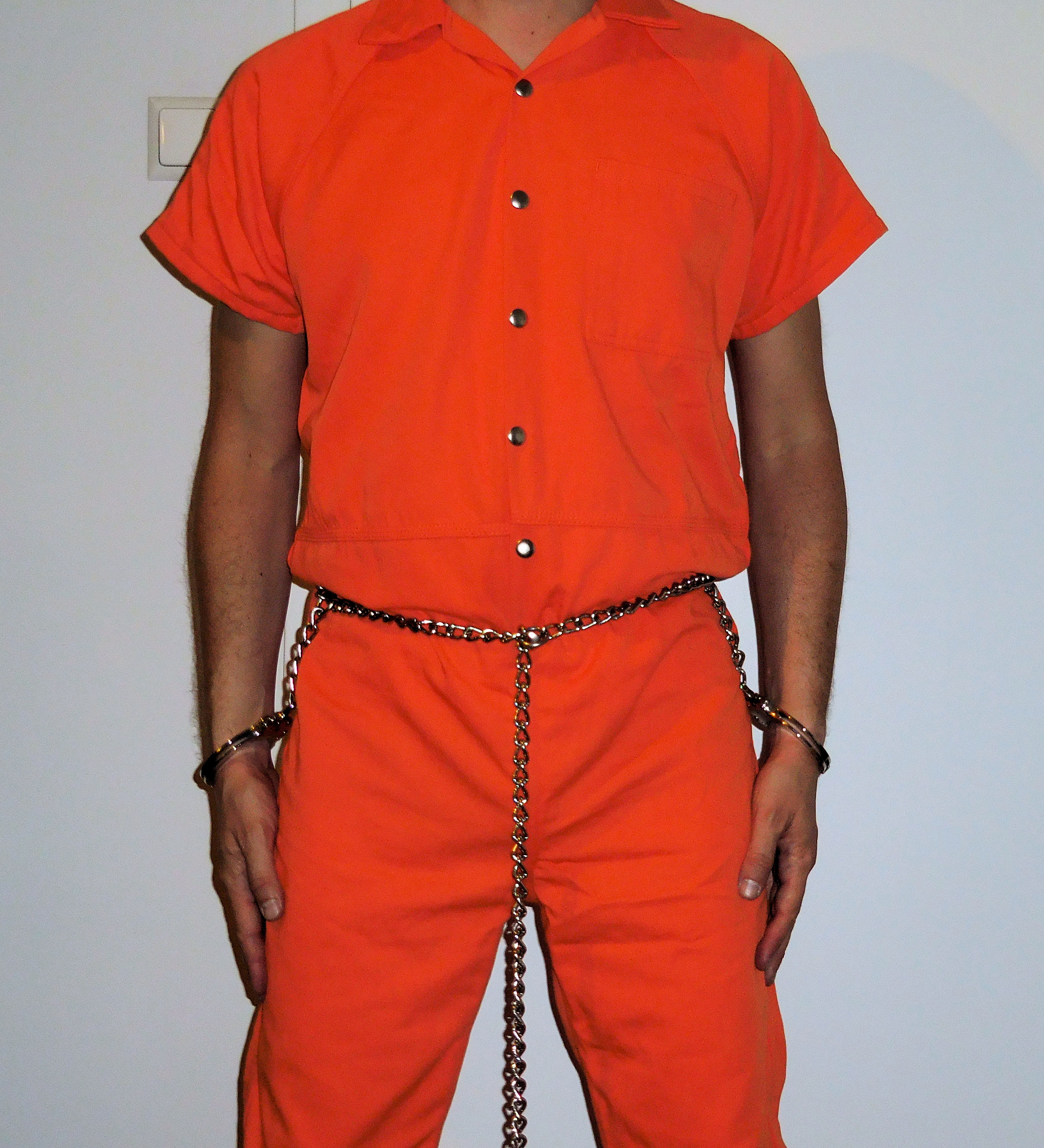 Inmate in orange institutional coverall and "full harness" transport restraints